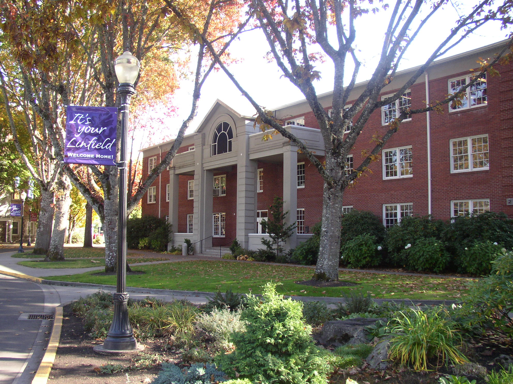 Riley Center at Linfield College in McMinnville, Oregon